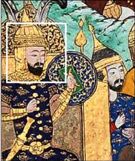 Painting of Gav in The Shahnama of Shah Tahmasp